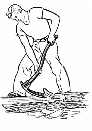 line art drawing of an adz, cleaned up by Micze